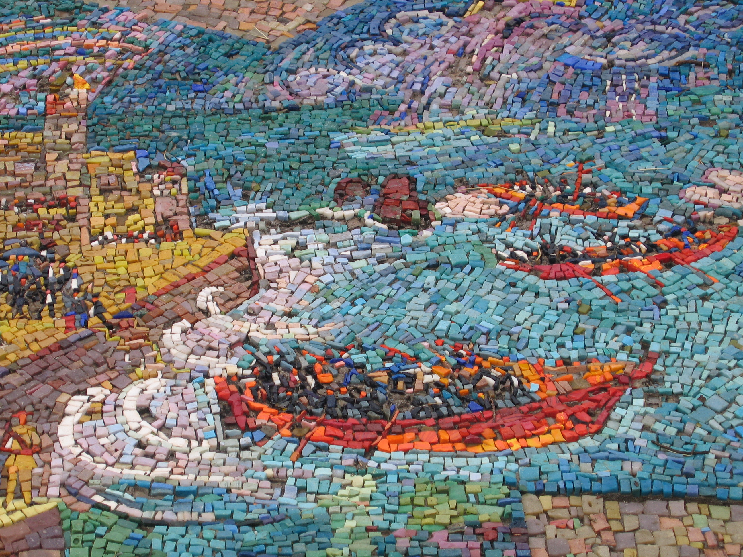 fountain & mosaic by Nahum Gutman at Bialik street, tel aviv-yaffo. the mosaic describe 4000 yers of tel aviv's history. from the mid 1970'